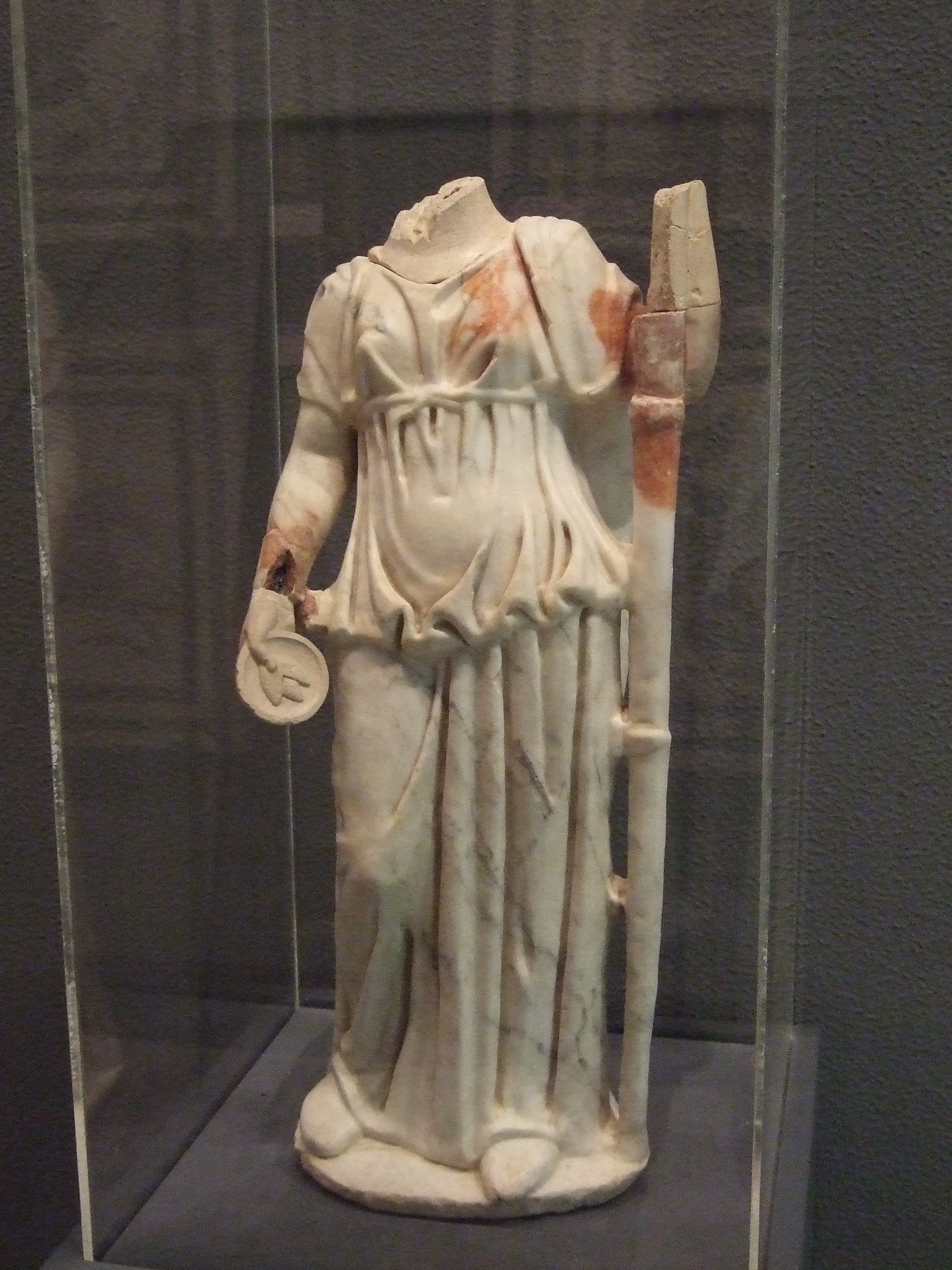 Demeter - Ceres (4th c AC). Villa de la Malena. Carrara marmor.